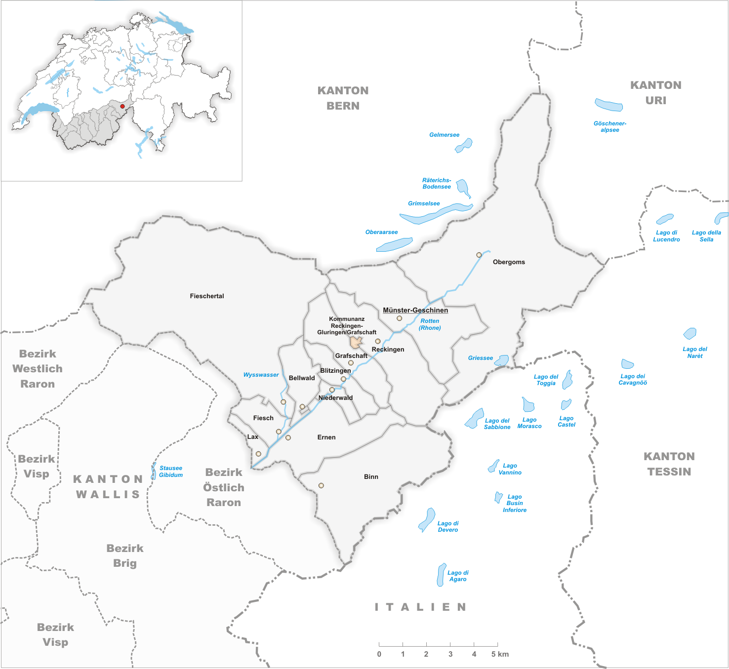 Kommunanz Reckingen Gluringen Grafschaft